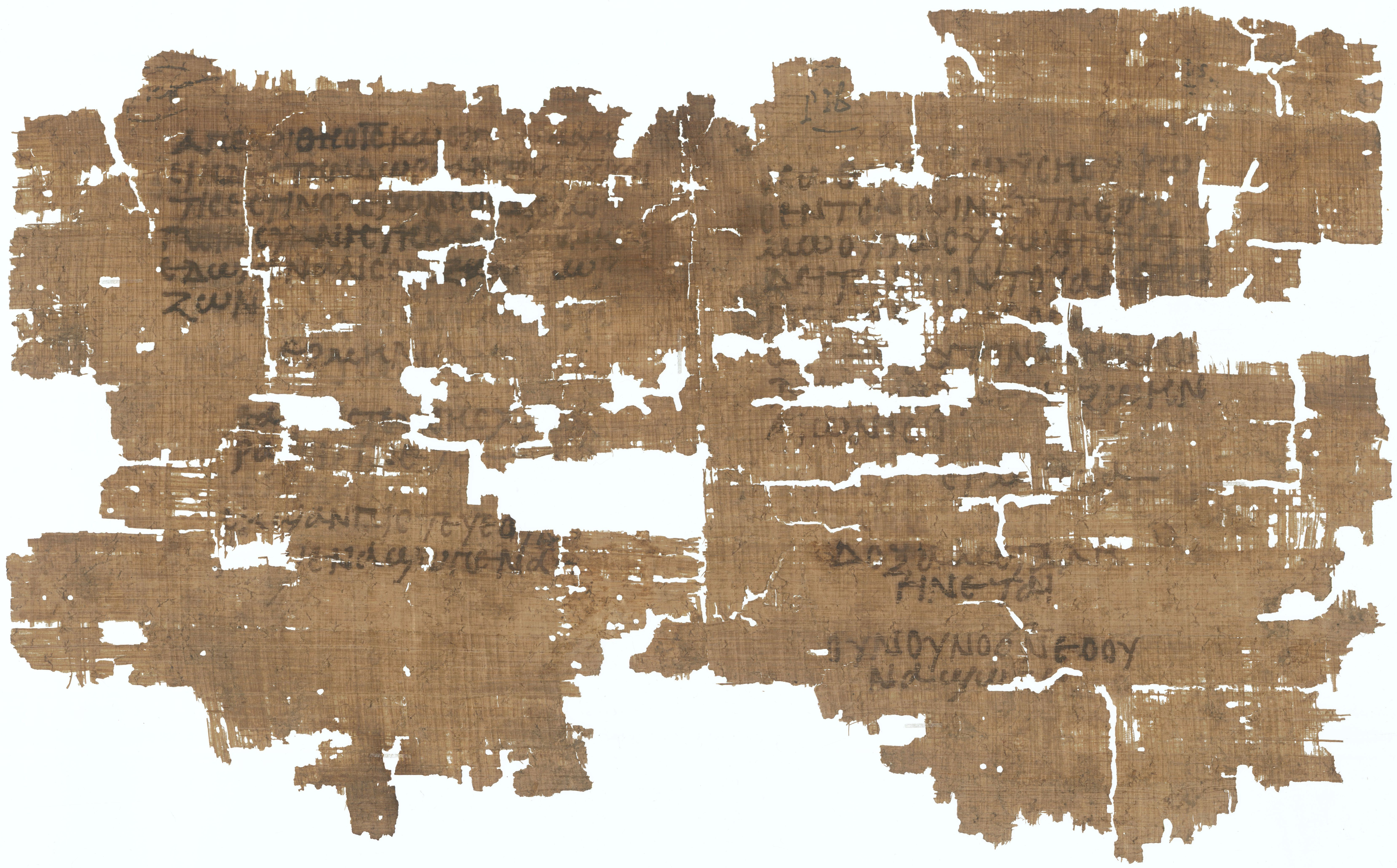 Papyrus 63 - Staatliche Museen zu Berlin inv. 11914 - Gospel of John 3:14-18 4:9-10 - recto